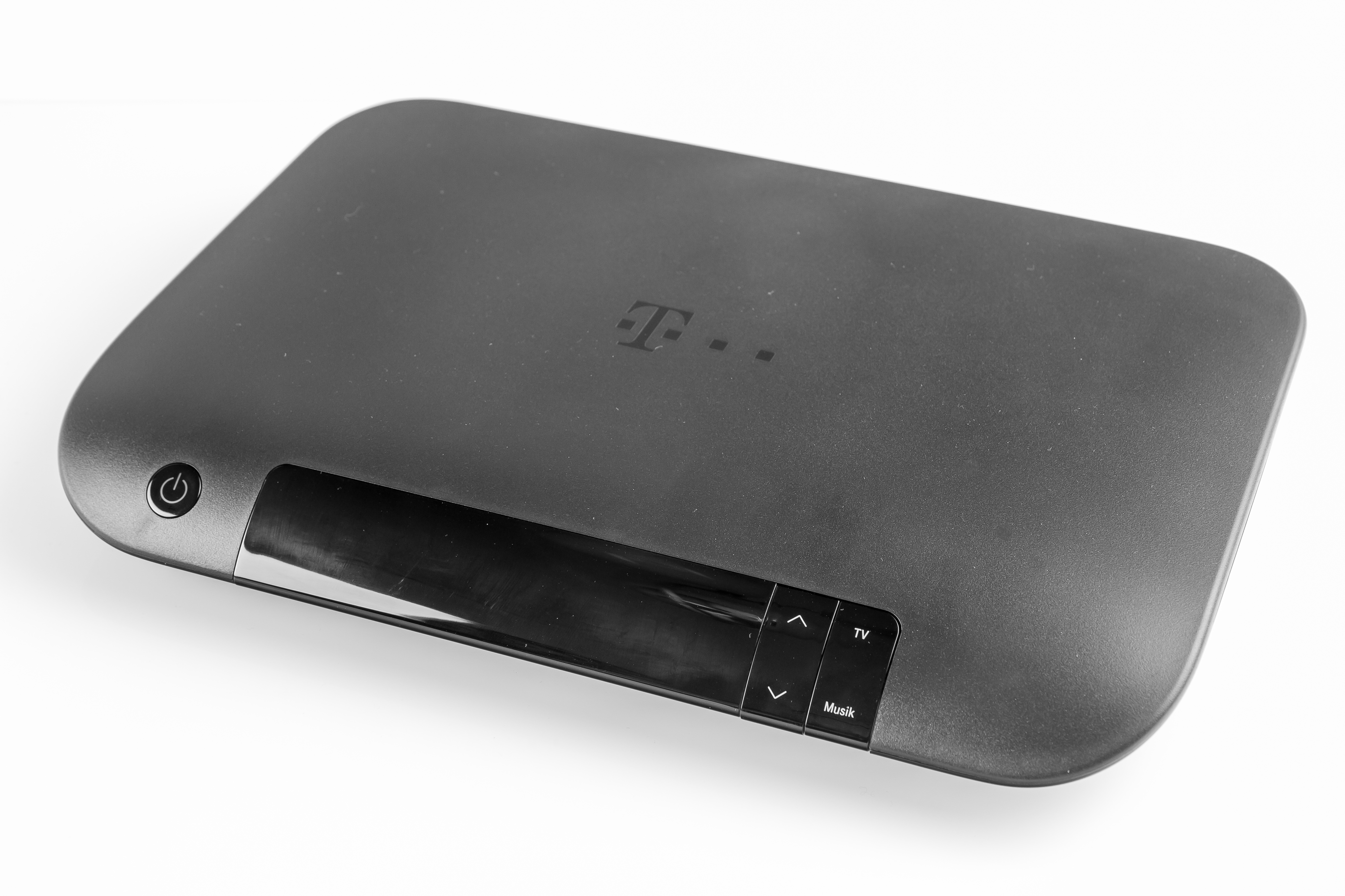 Deutsche Telekom Media Receiver 400 für IPTV